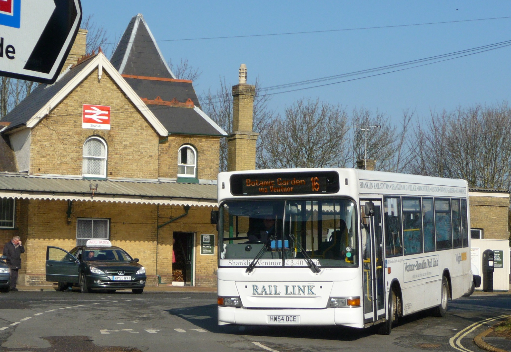 Wightbus 5862 (HW54 DCE), a Dennis Dart SLF/Plaxton Pointer 2 MPD, leaving the forecourt of Shanklin Railway Station, Shanklin, Isle of Wight, on rail link service 16. The building is the front of Shanklin station.